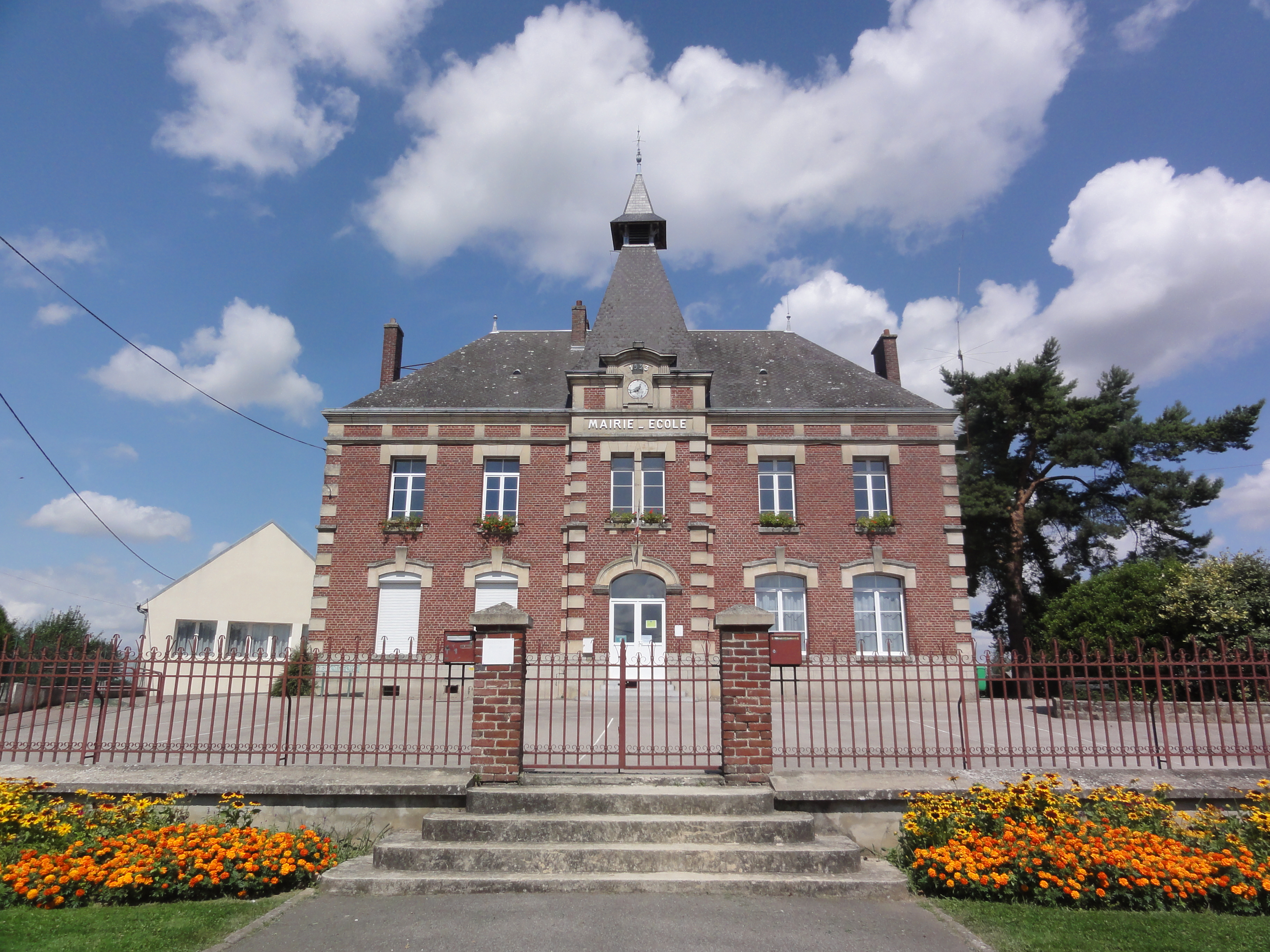 Caumont (Aisne) mairie-école